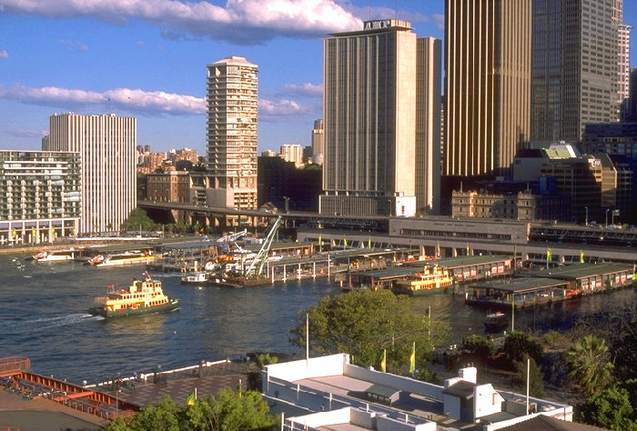 Circular Quay with ferry boats, Sydney, Australia